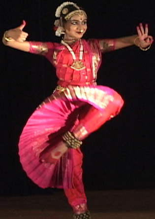 Bharatanatyam performance Watermark was: "Courtesy of Medha Hari"